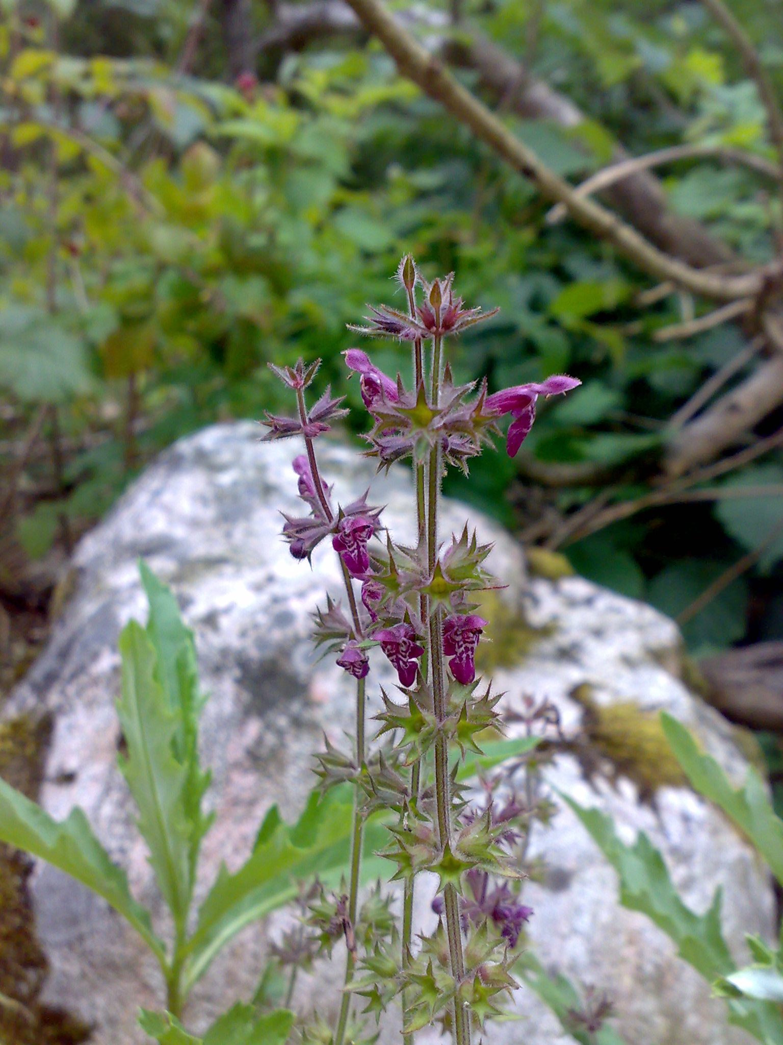 Stachys sylvatica in Hurum, Norway